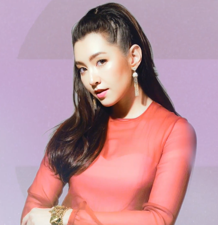 Ranee Campen, Thai actress.